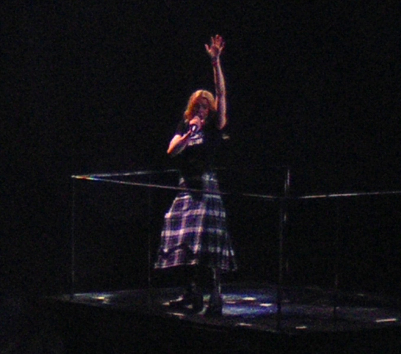 Madonna performing "Papa Dont Preach" and "Crazy for You"